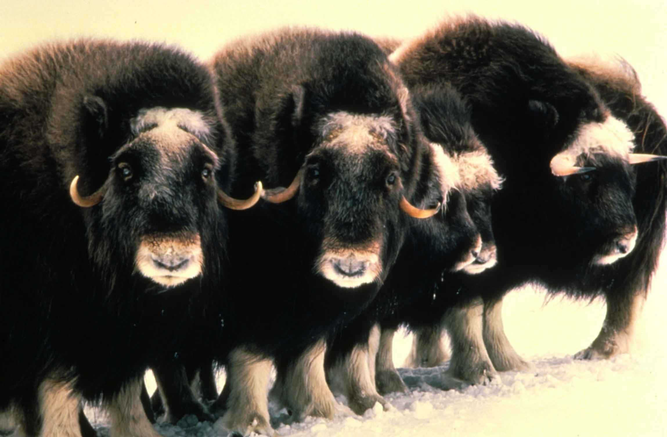 Image title: Musk oxen mammals ovibos moschatus Image from Public domain images website